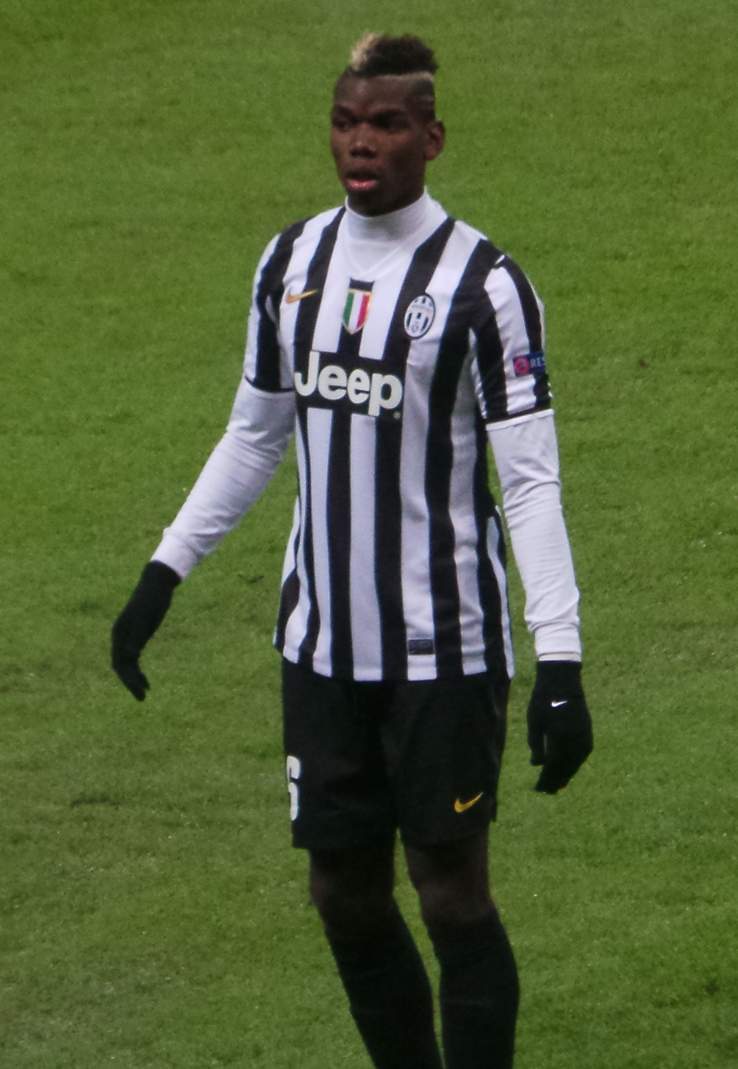 Paul Pogba